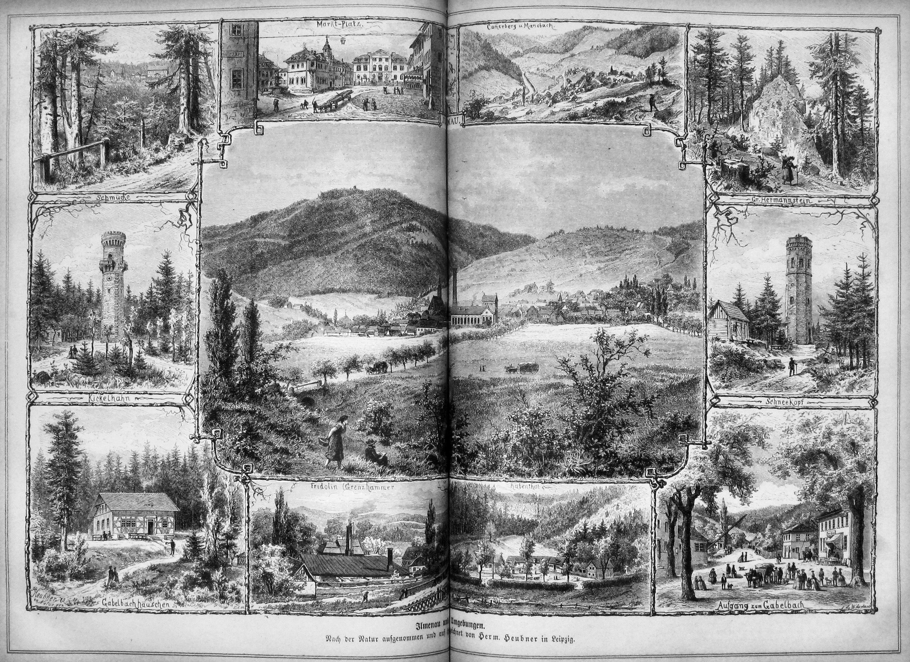 caption: "Ilmenau und Umgebungen. Nach der Natur aufgenommen und auf Holz gezeichnet von Herm. Heubner in Leipzig."